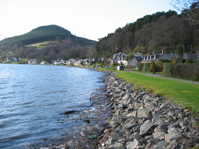 Kilmuir An attractive settlement of the north shore of the Moray Firth.